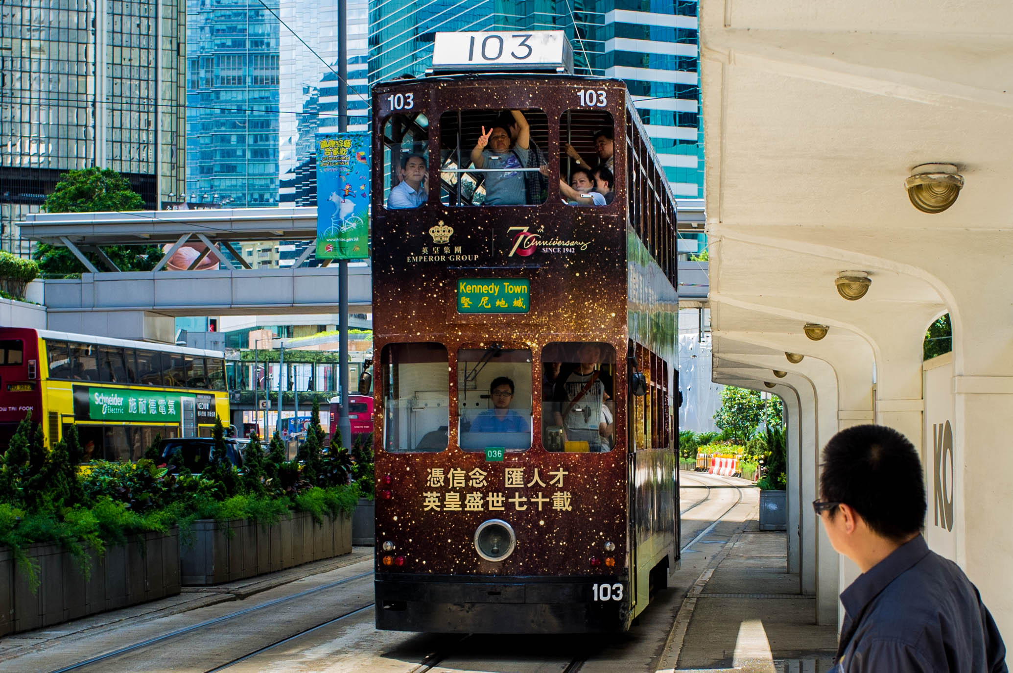 A Hong Kong doubledecker tram